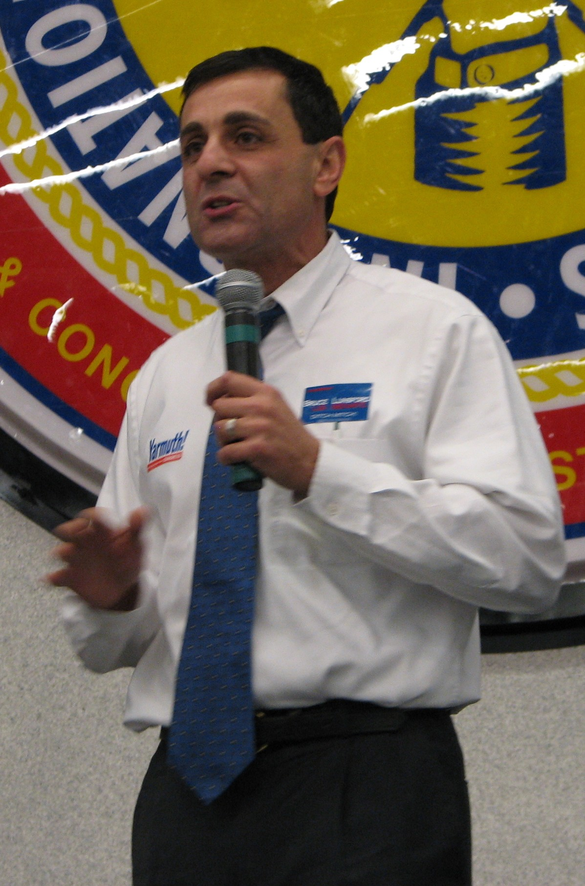 Dan Mongiardo at IBEW Local 862 Rally